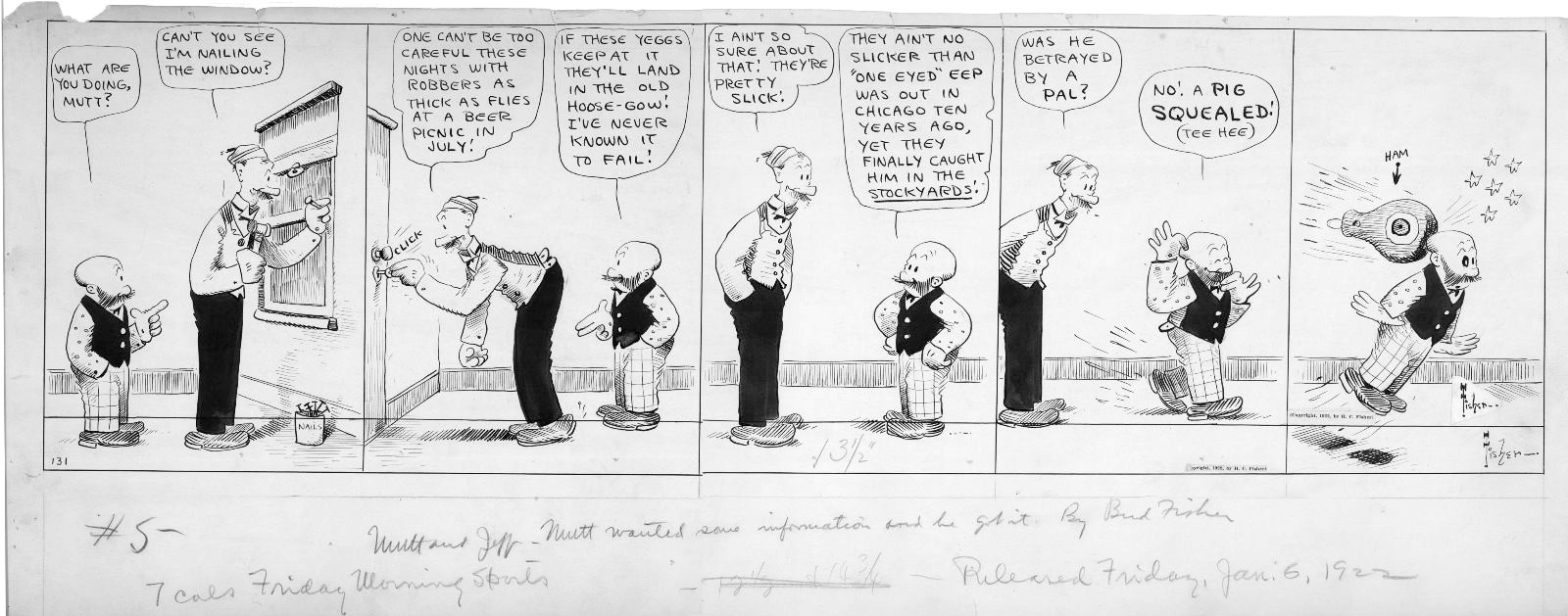 Copy of an original comic strip for Mutt and Jeff.